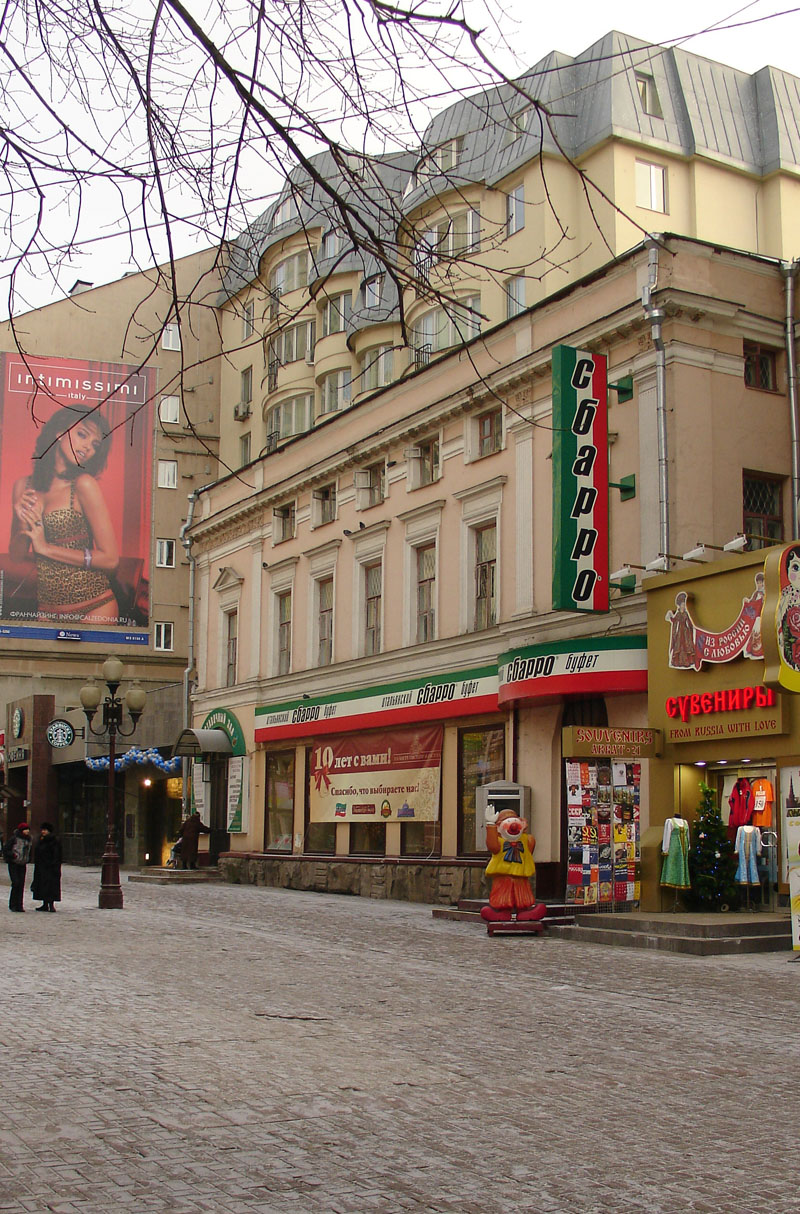 Arbat Street, Moscow. Unusually few people - between New Year and (orthodox) Christmas the city looks deserted.